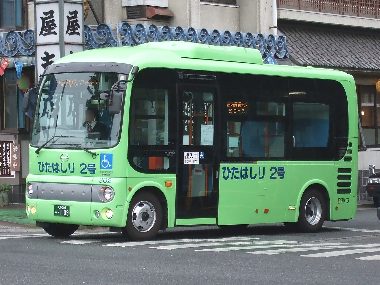 Hita City Community Bus “Hitahashiri No.2” 日田市市内循環バス「ひたはしり2号」